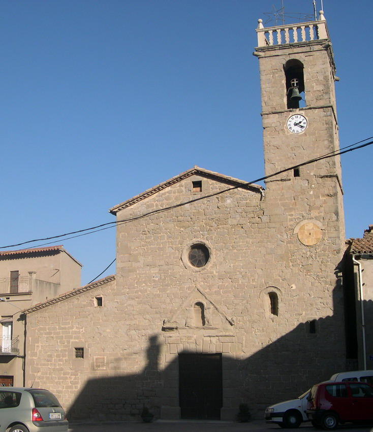 Mare de Déu dels Àngels church in Casserres, Berguedà, Catalonia